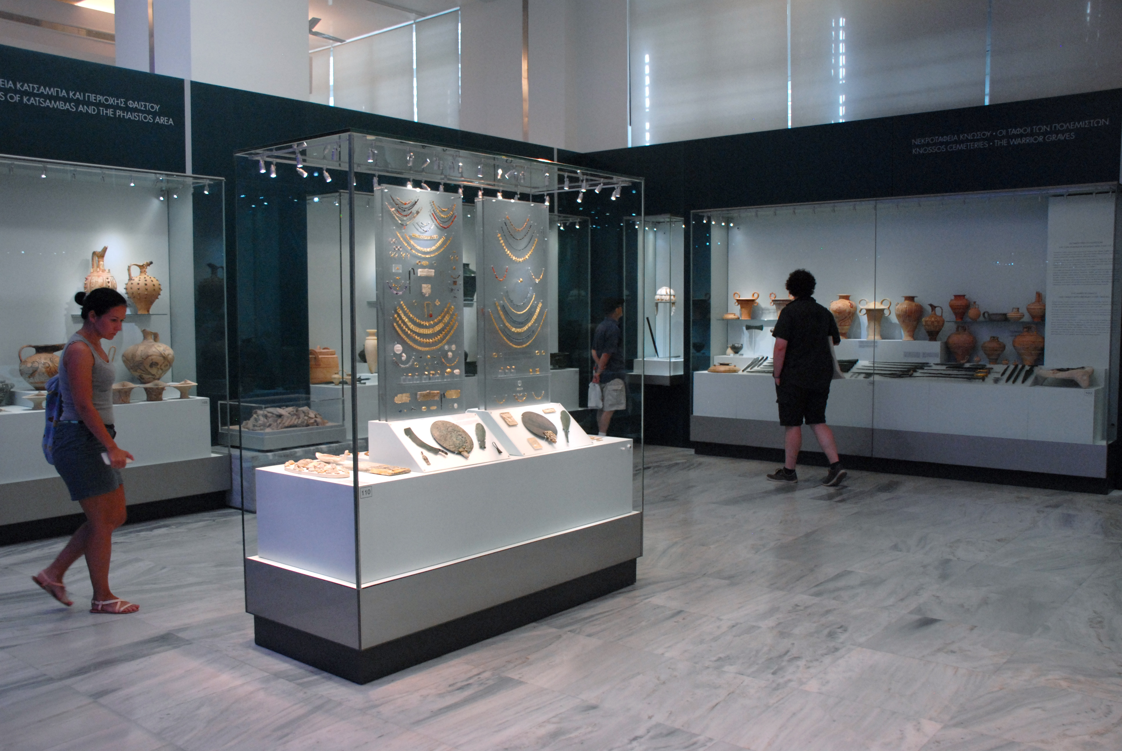 Archaeological Museum of Heraklion